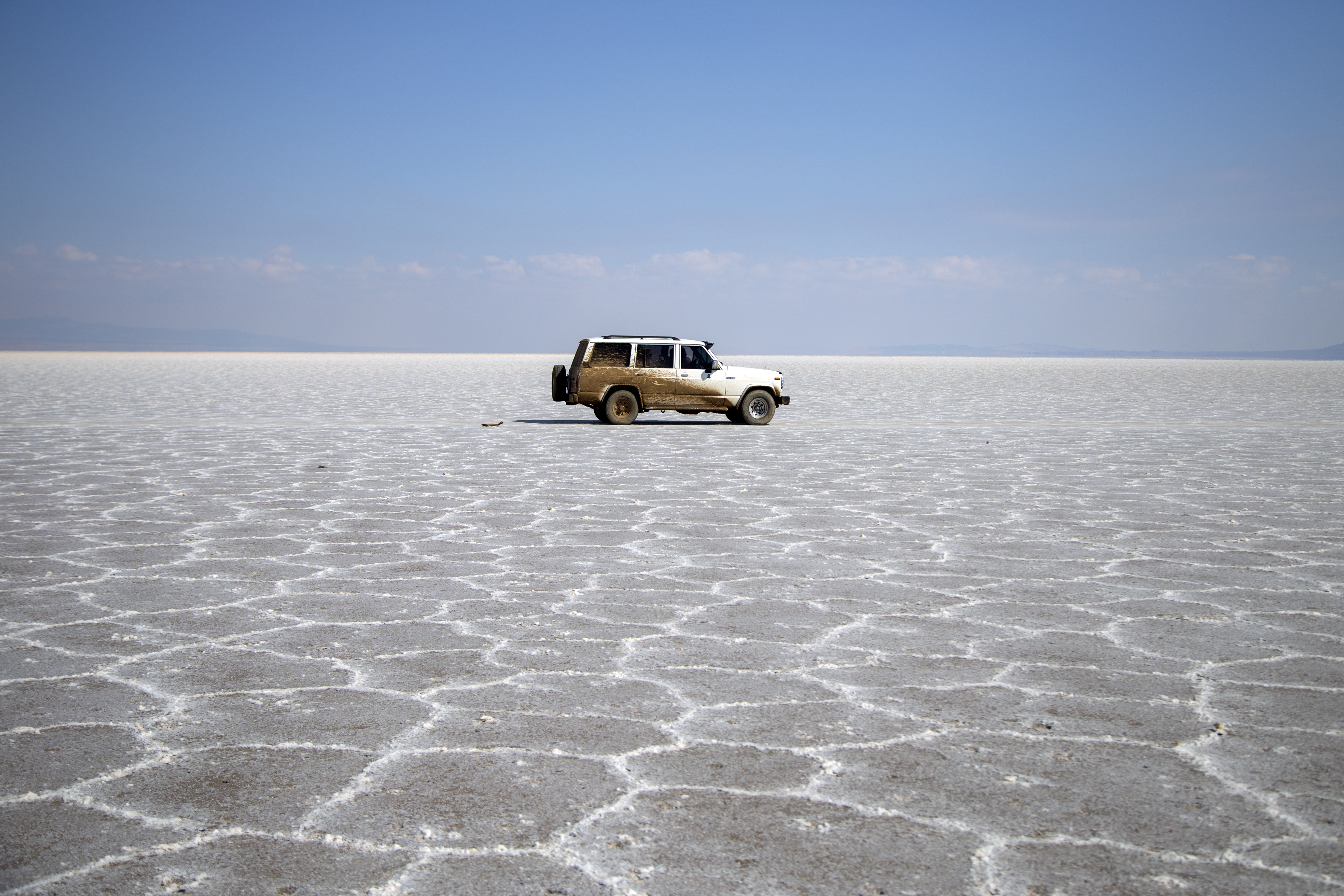 The Maranjab Desert is located in Aran va Bidgol, Iran and around 60 km north-east of Kashan.